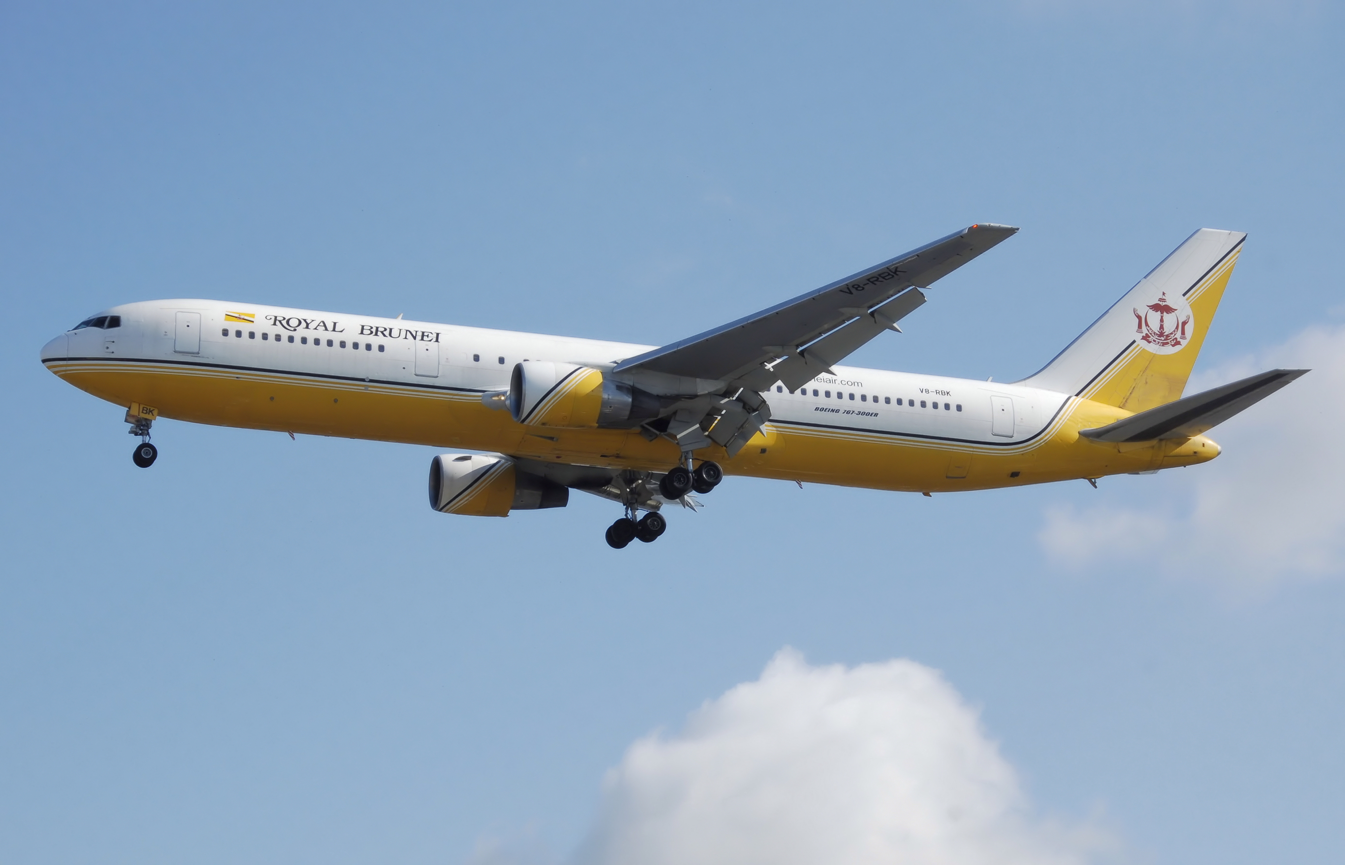 Royal Brunei Boeing 767-300ER (V8-RBK) lands at London Heathrow Airport.